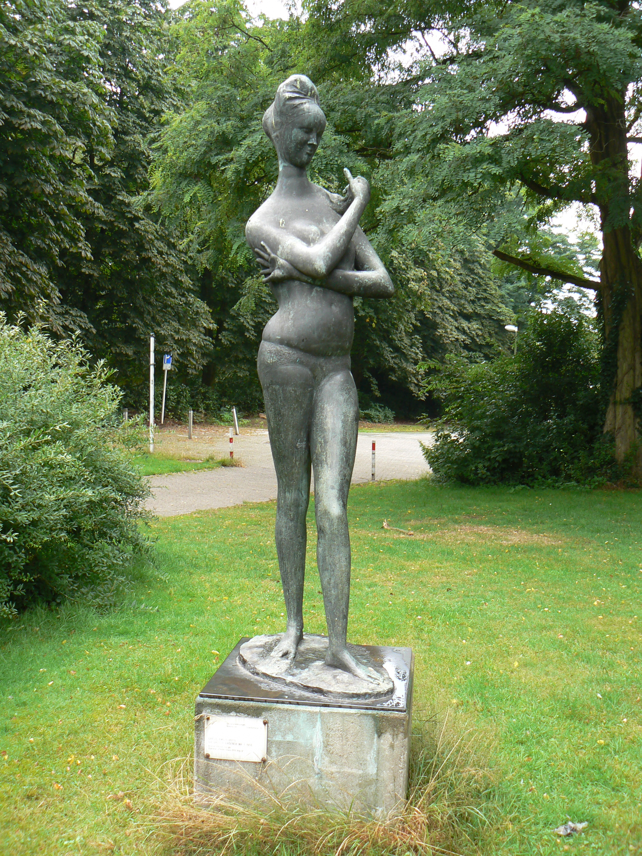 Collection: Skulpturenmuseum Glaskasten Location: City Center Marl/Germany Sculpture: Die große Badende Nr. 1 (1956) Sculptor: Emilio Greco